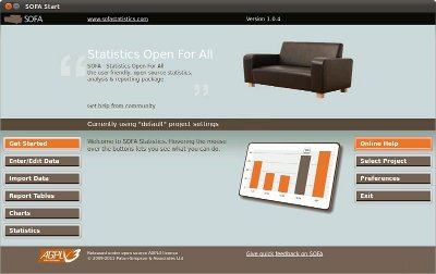 The start screen of the SOFA Statistics analysis, reporting, and statistics application.